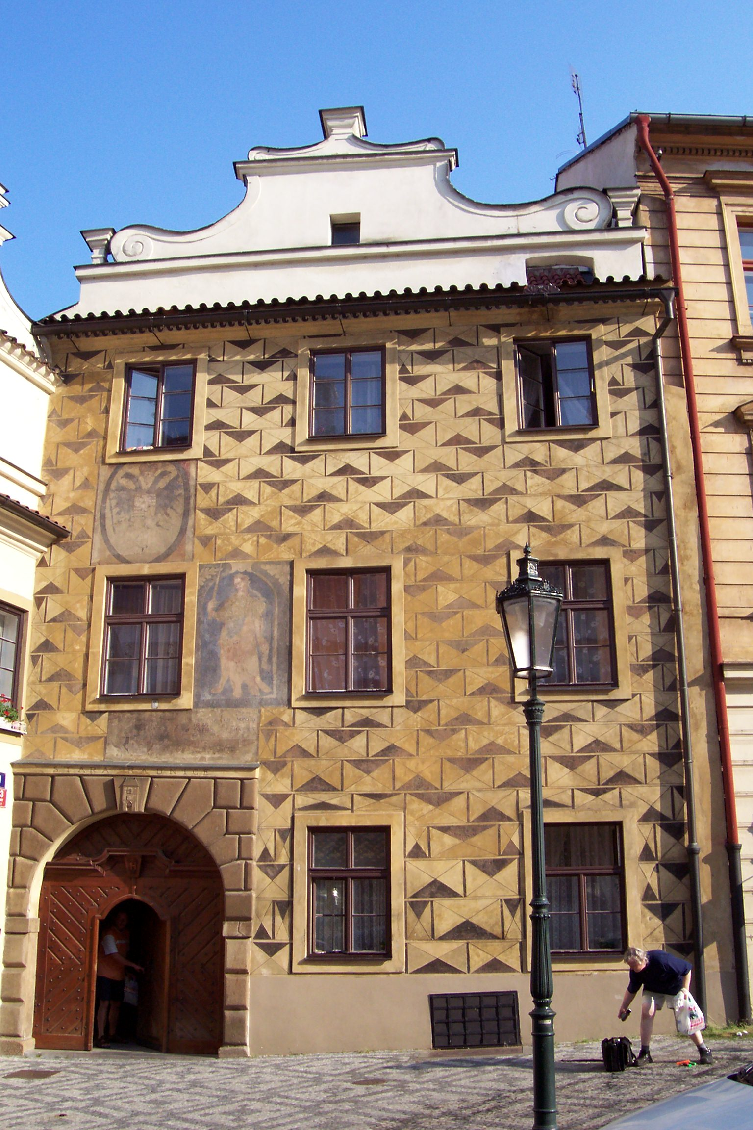 Old townhall of Hradčany